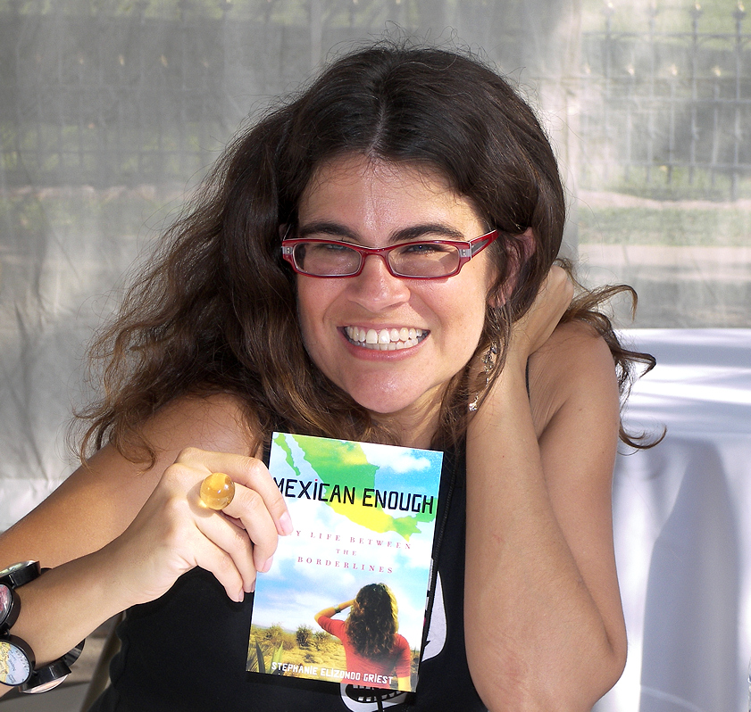 Stephanie Elizondo Griest at the 2008 Texas Book Festival, Austin, Texas, United States.